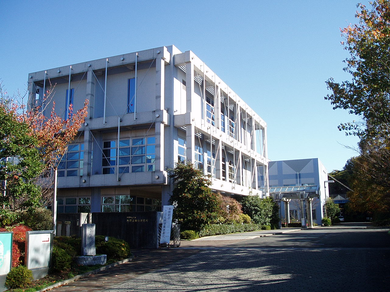 Maioka Campus (Kihara Institute for Biological Research) of Yokohama City University, located in Totsuka-ku, Yokohama, Kanagawa, Japan.